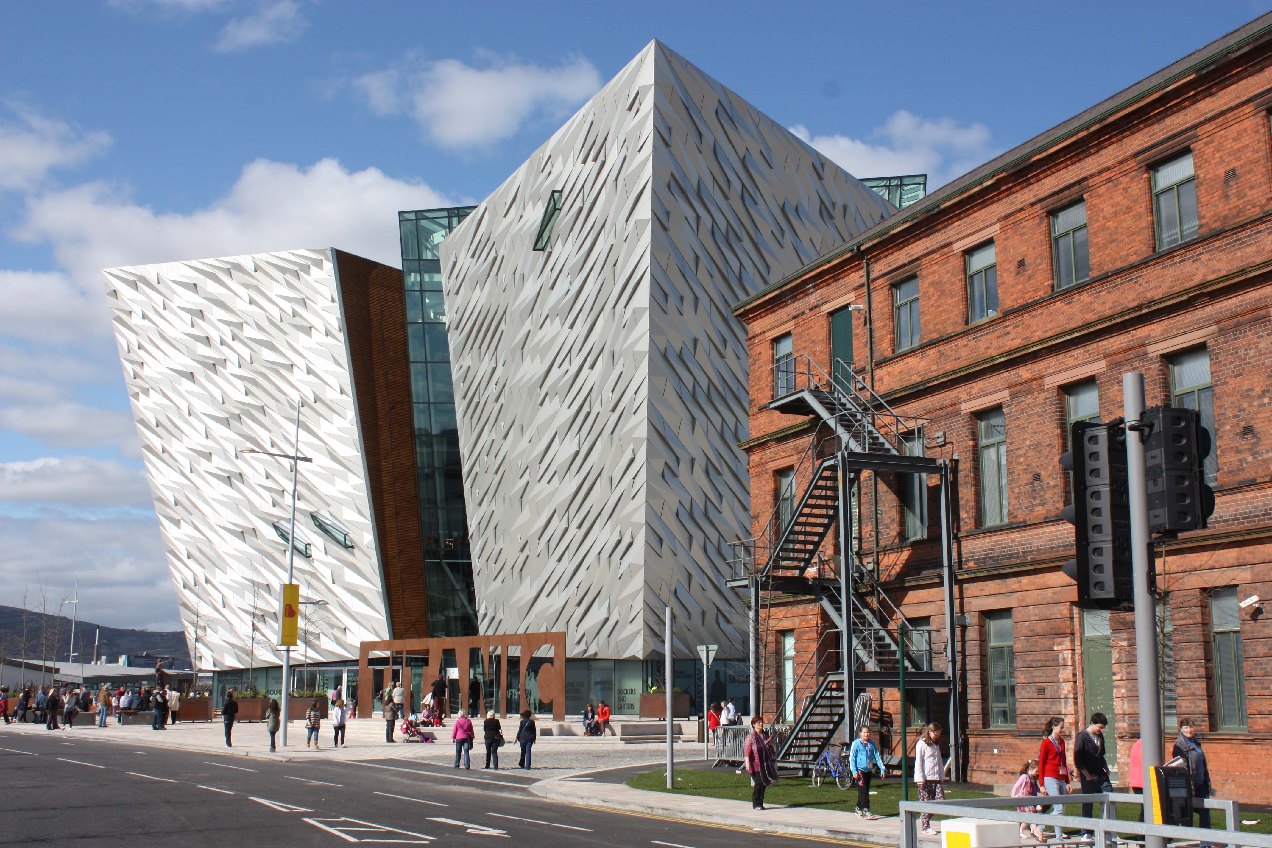 Opening Day at Titanic Belfast, Titanic Quarter, Queen's Road, Belfast, Northern Ireland, 31 March 2012